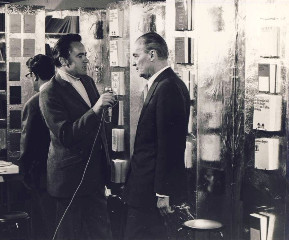 Hans Erich Nossack , Buchmesse Frankfurt am Main 1969